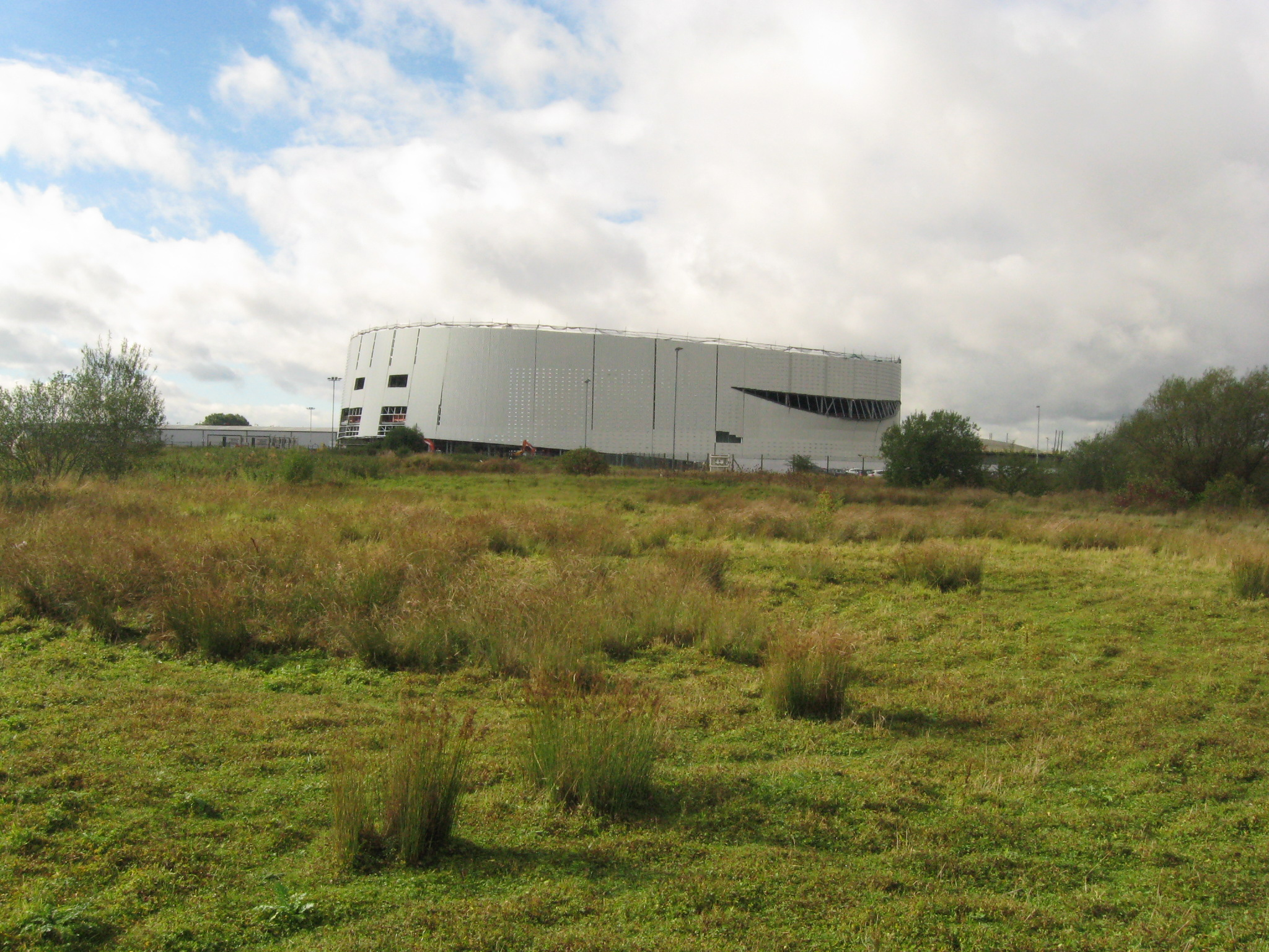 View of Derby Velodrome, under construction, viewed from within the city's first bird reserve, known as The Sanctuary Local Nature Reserve (LNR). A video journalist from BBC TV's 'East Midlands Today' news programme films on an area known as 'Skylark Grassland'. Campaigners were objecting to proposals by Derby City Council to construct a closed-circuit cycle race track on this habitat, known to be used by ground-nesting and passage migrant birds.